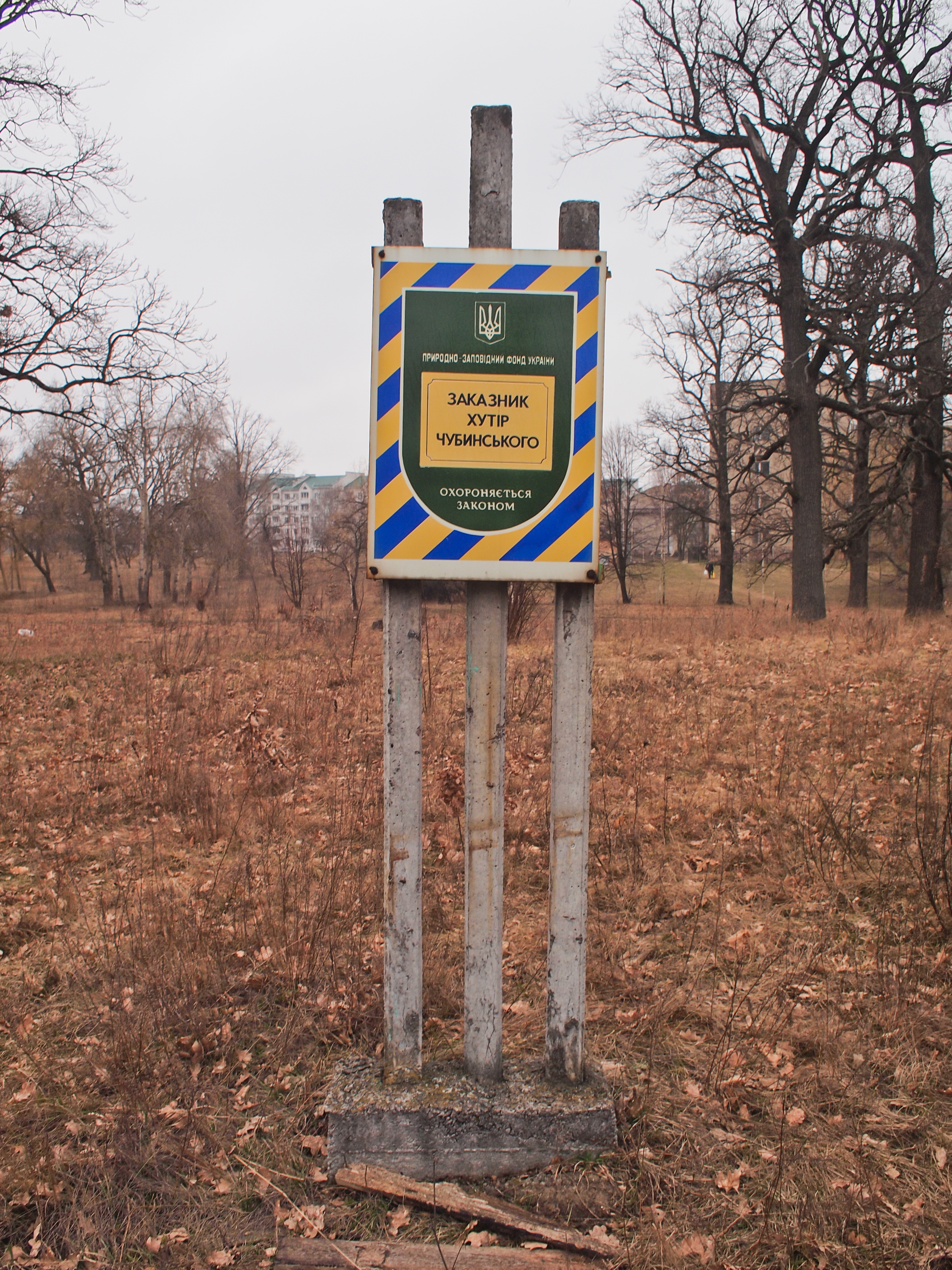 Chubynske village, Boryspil Raion, Kyiv oblast, Ukraine.